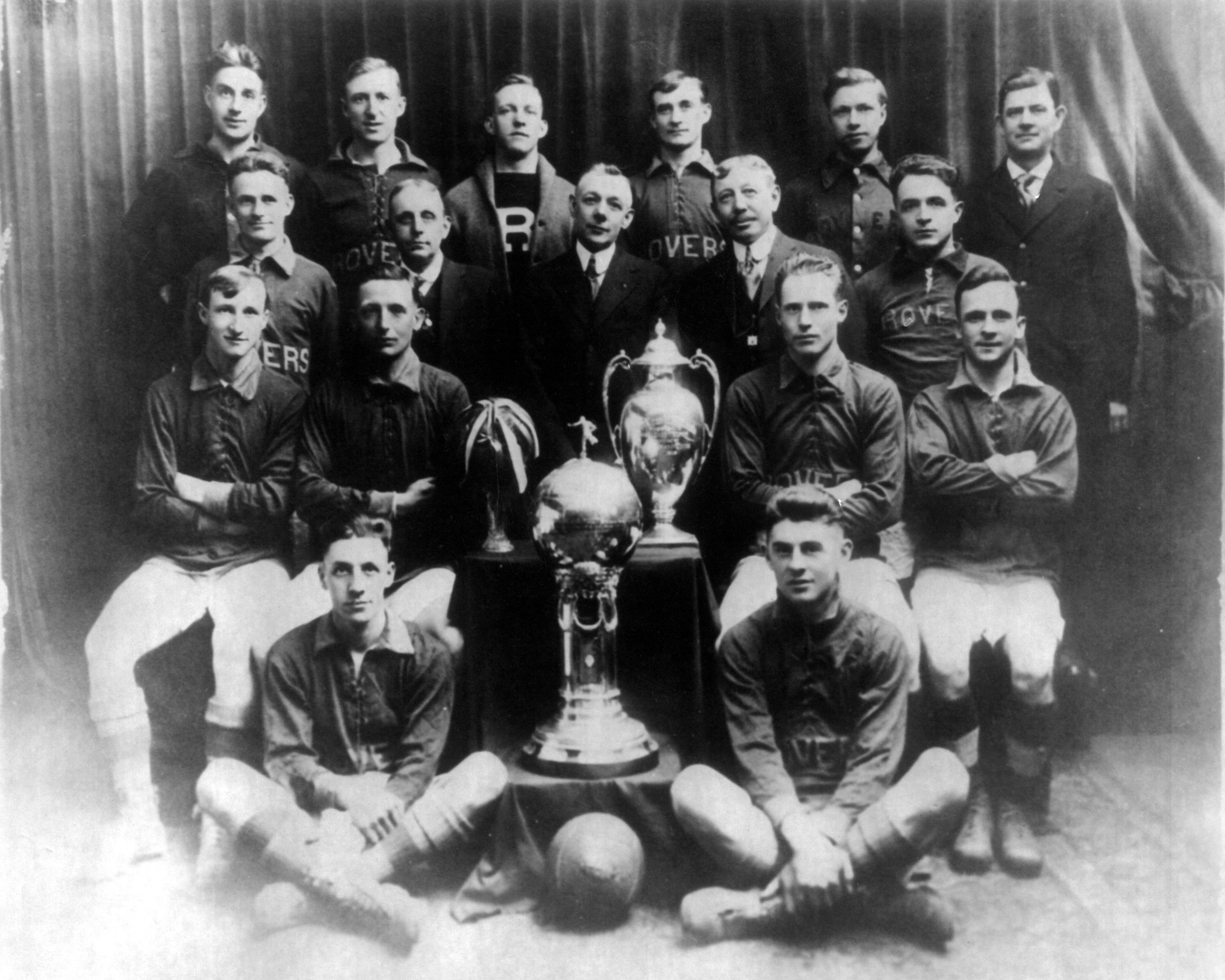 The 1917 Fall River Rovers team posing with two of the trophies won that year, the National Challenge Cup (donated by Thomas Dewar), at front) and the Times Cup (back). Pictured: Top row: J. Hennessy, F. Booth, J. Albin, C. Burns, T. Underwood, C Davis F. Burns, R. Haworth, H. Crook, L.L. Holden, C. LappiereW. Turner, J.J. Sullilan, T. Sword, J. CullertonA. Moran, F. Landt.